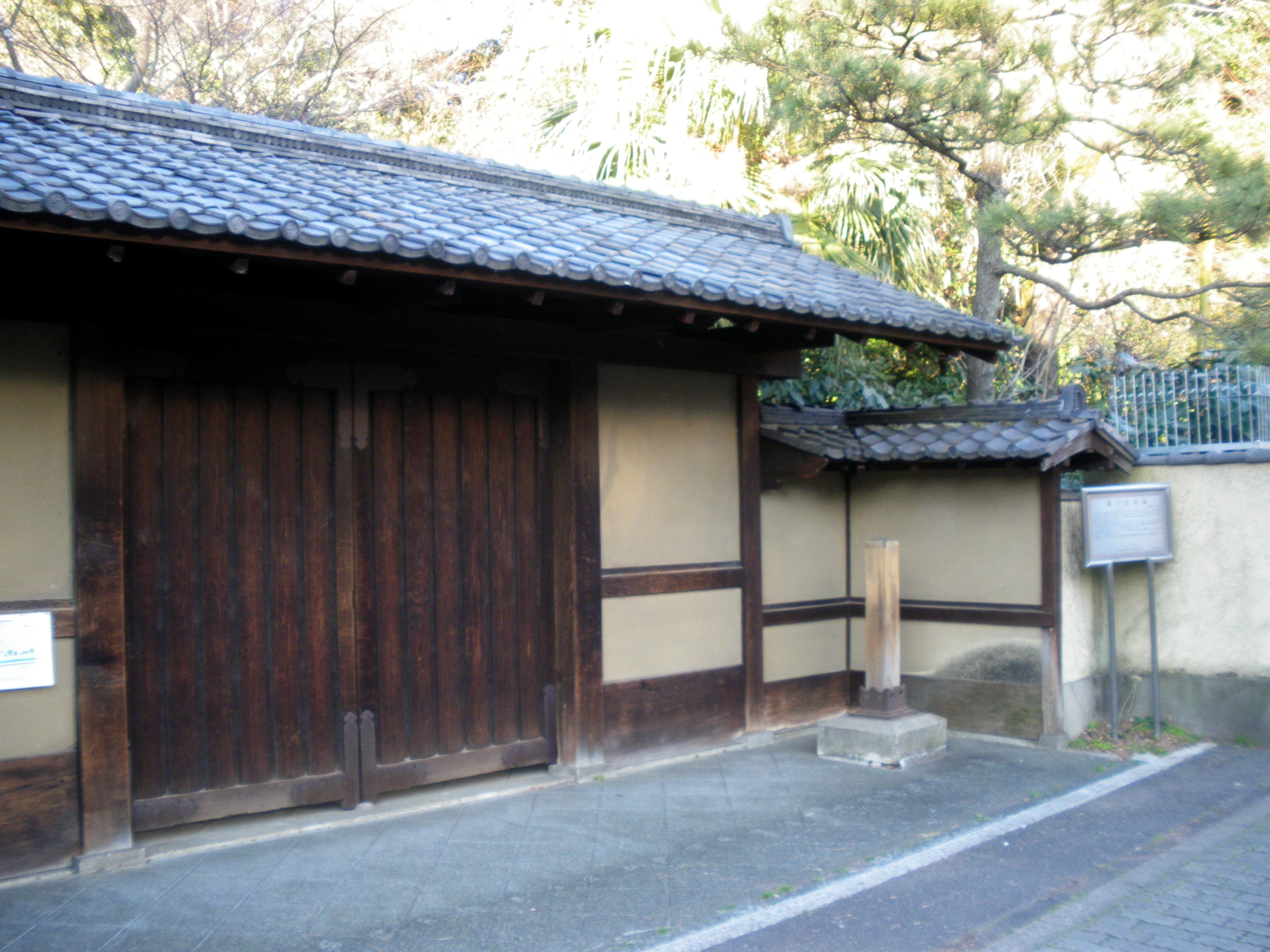 A photo of the gate of Sekiguchi Basyoan,Sekiguchi,Bunkyo-ku,Tokyo,Japan.